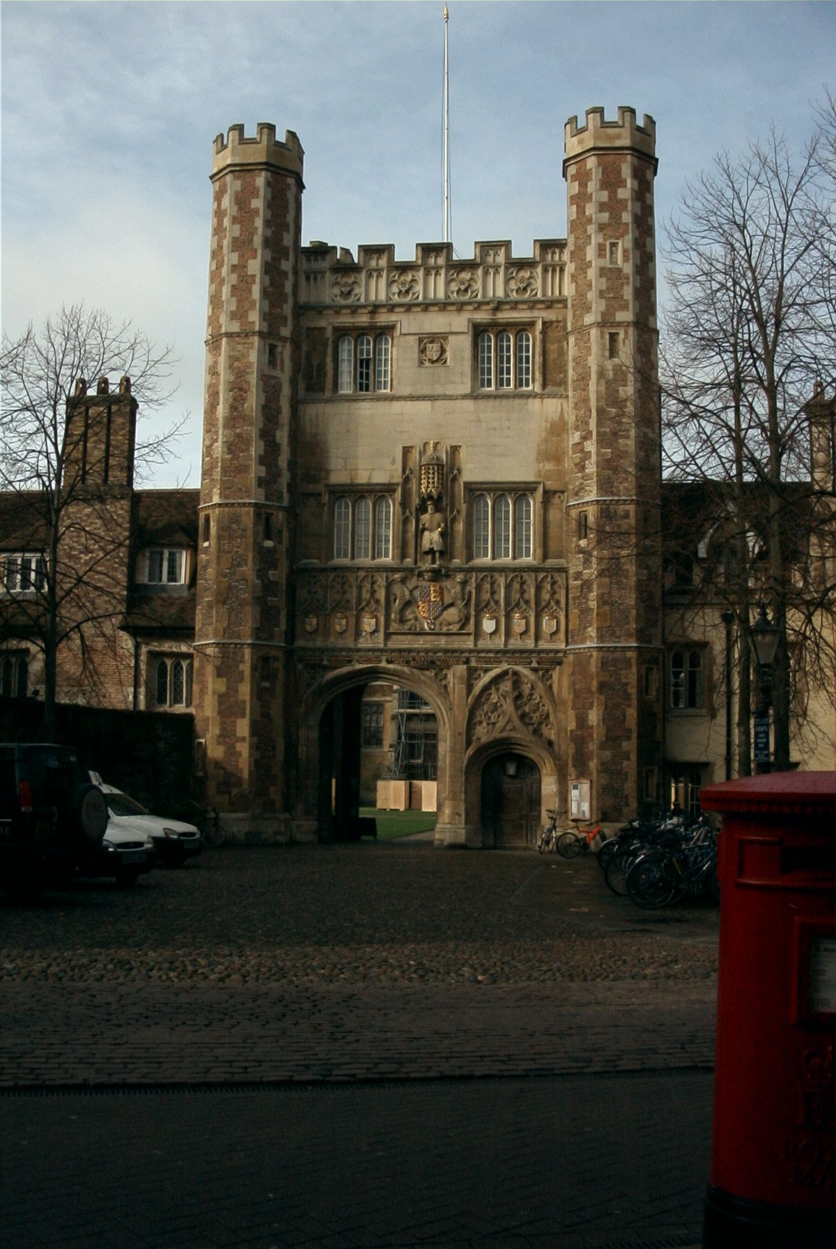 Trinity College, Cambridge (Great Gate)